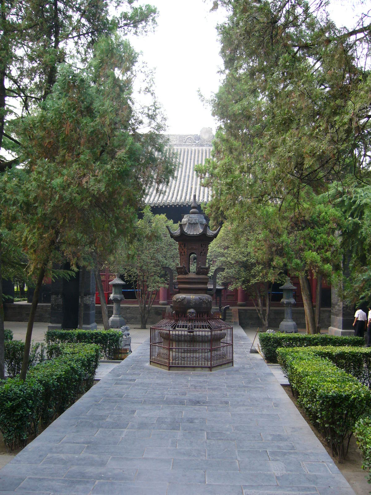 A Xianglu at White Horse Temple, in Luoyang, Henan, China.